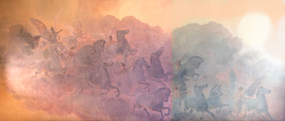 "The Triumph of Time" Mural by John Elliott at the Boston Public Library (one of 2 panels)